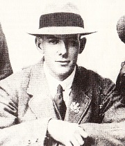 One oof the perpetrators of the 1920s "Crumbles murders".